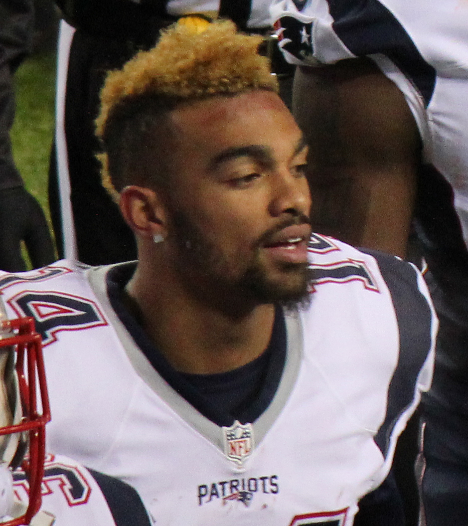 Chris Harper, a player on the National Football League.